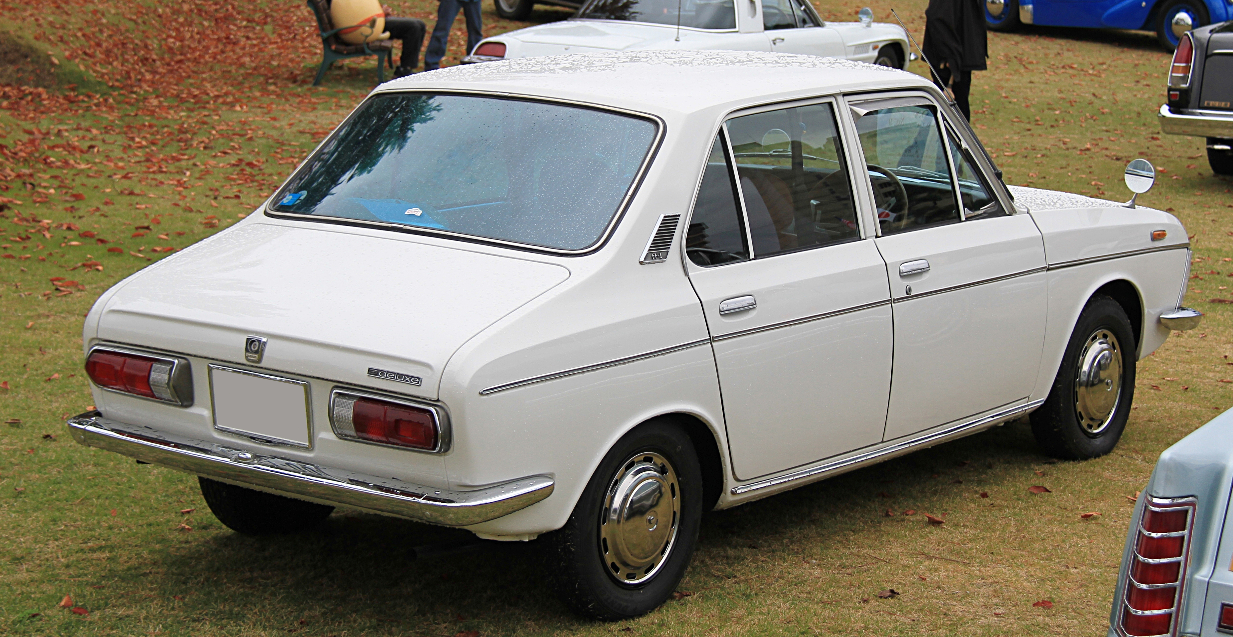 Subaru ff-1